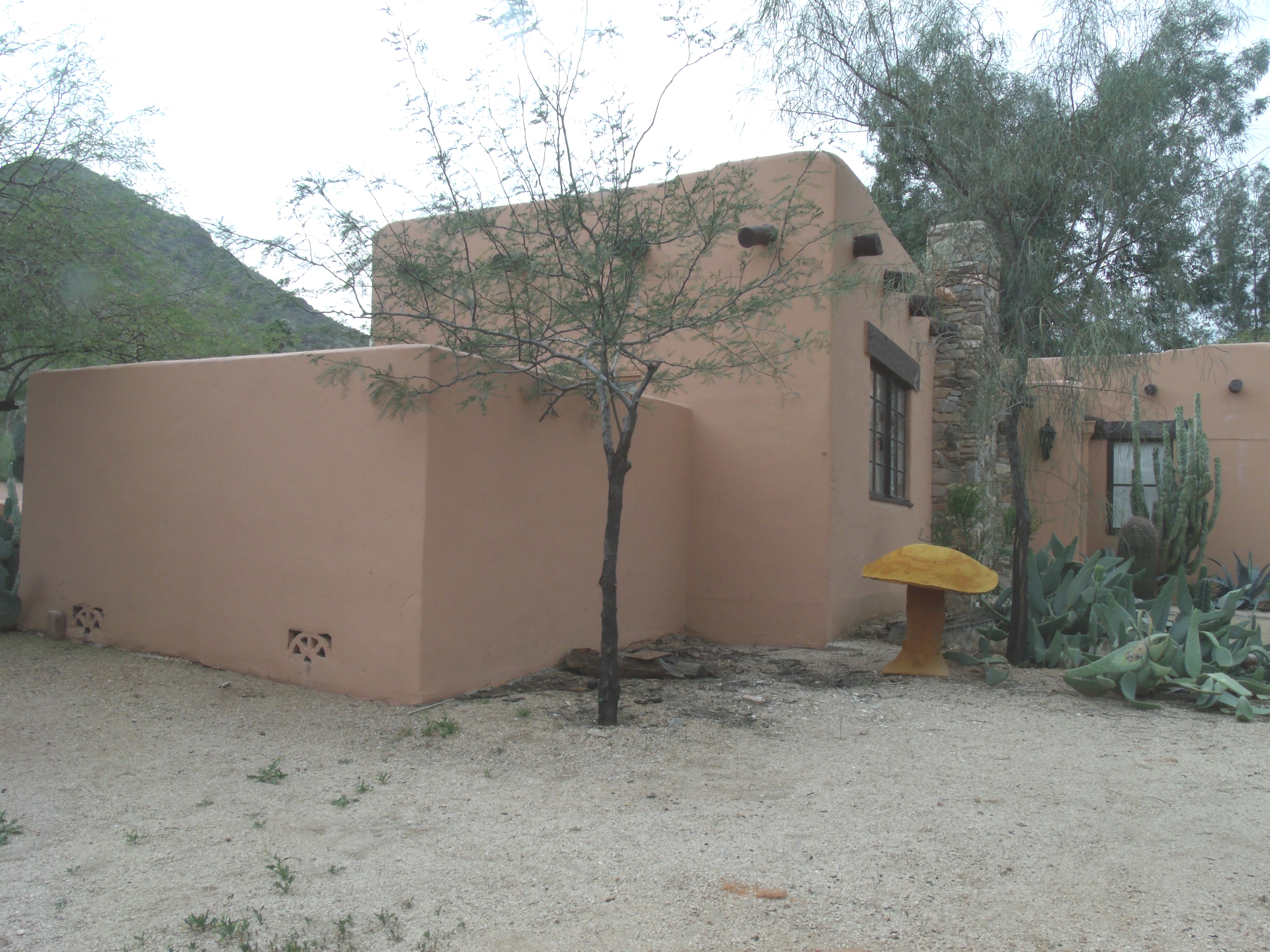 The first building built in 1929 by William Eugene D'Allemund in what became Squaw Peak Ranch and later Squaw Peak Inn. On January 12, 1995, Squaw Peak Inn was listed in the National Register of Historic Places, reference number 9600760.